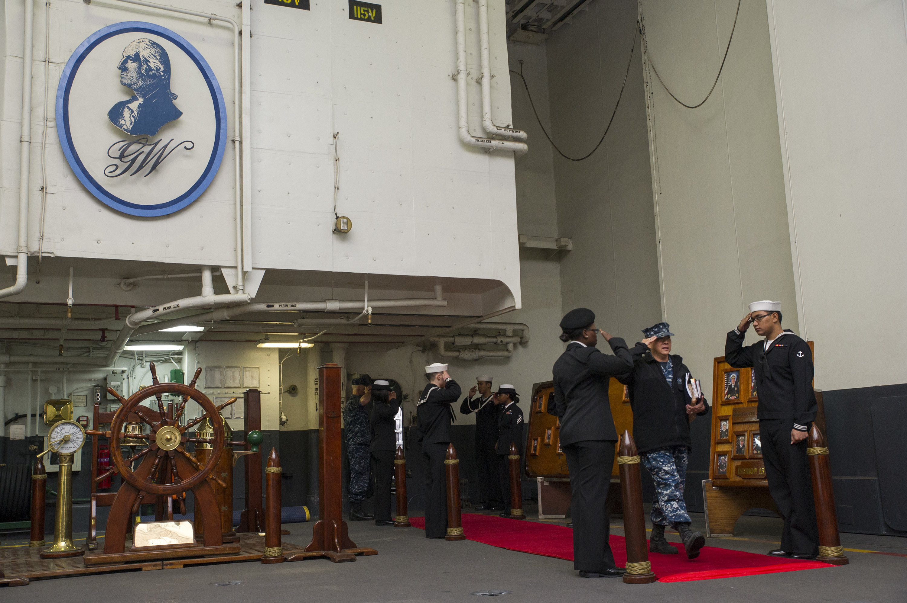 150226-N-IP531-001 YOKOSUKA, Japan (Feb. 26, 2015) Sideboys salute Rear Adm. Alma Grocki, director for fleet maintenance, U.S. Pacific Fleet, as she arrives aboard the Nimitz-class aircraft carrier USS George Washington (CVN 73) for a ship visit. George Washington and its embarked air wing, Carrier Air Wing (CVW) 5, provide a combat-ready force that protects and defends the collective maritime interests of the U.S. and its allies and partners in the Indo-Asia-Pacific region.